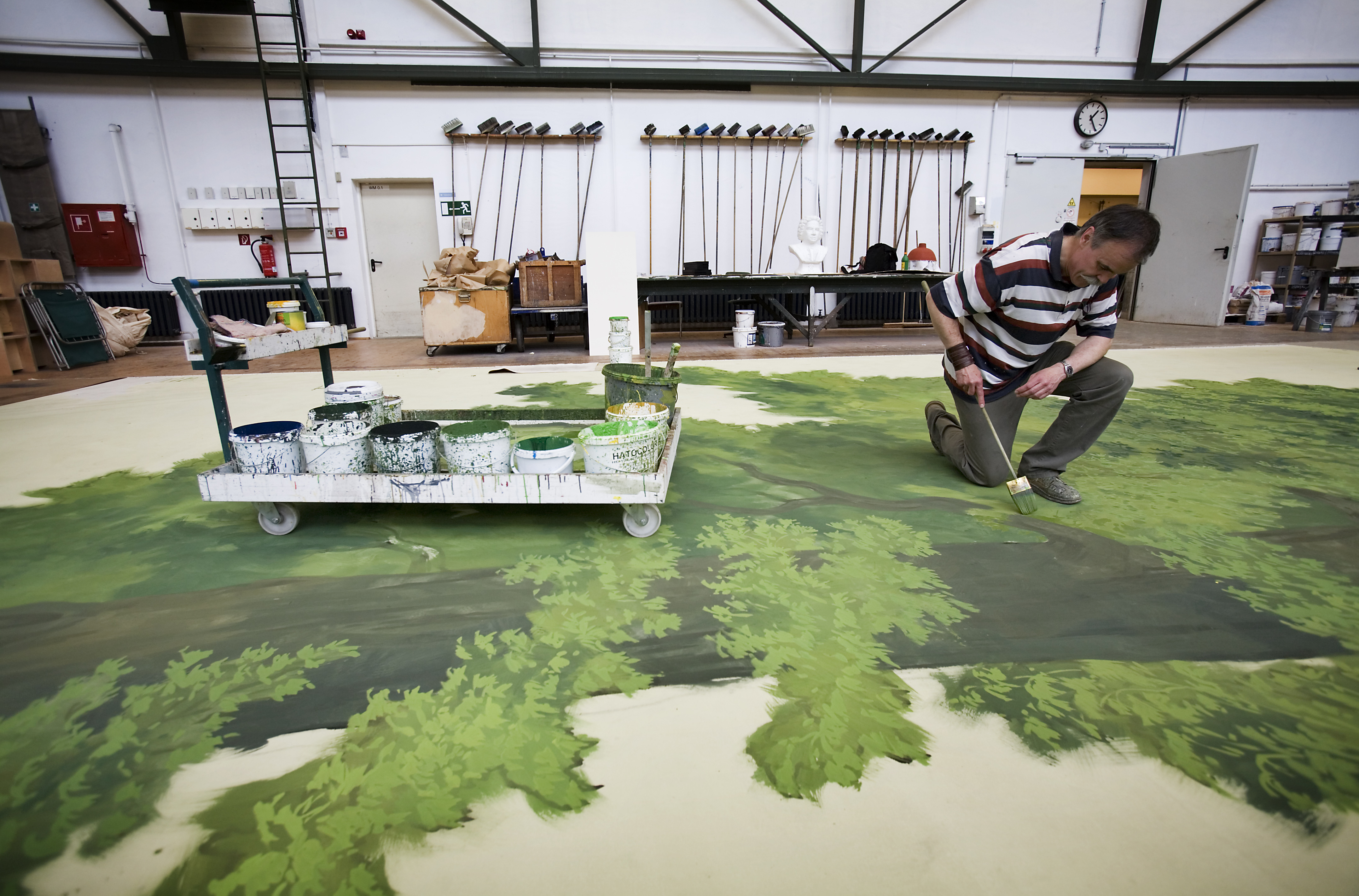 Scenography, set construction and theatrical scenery